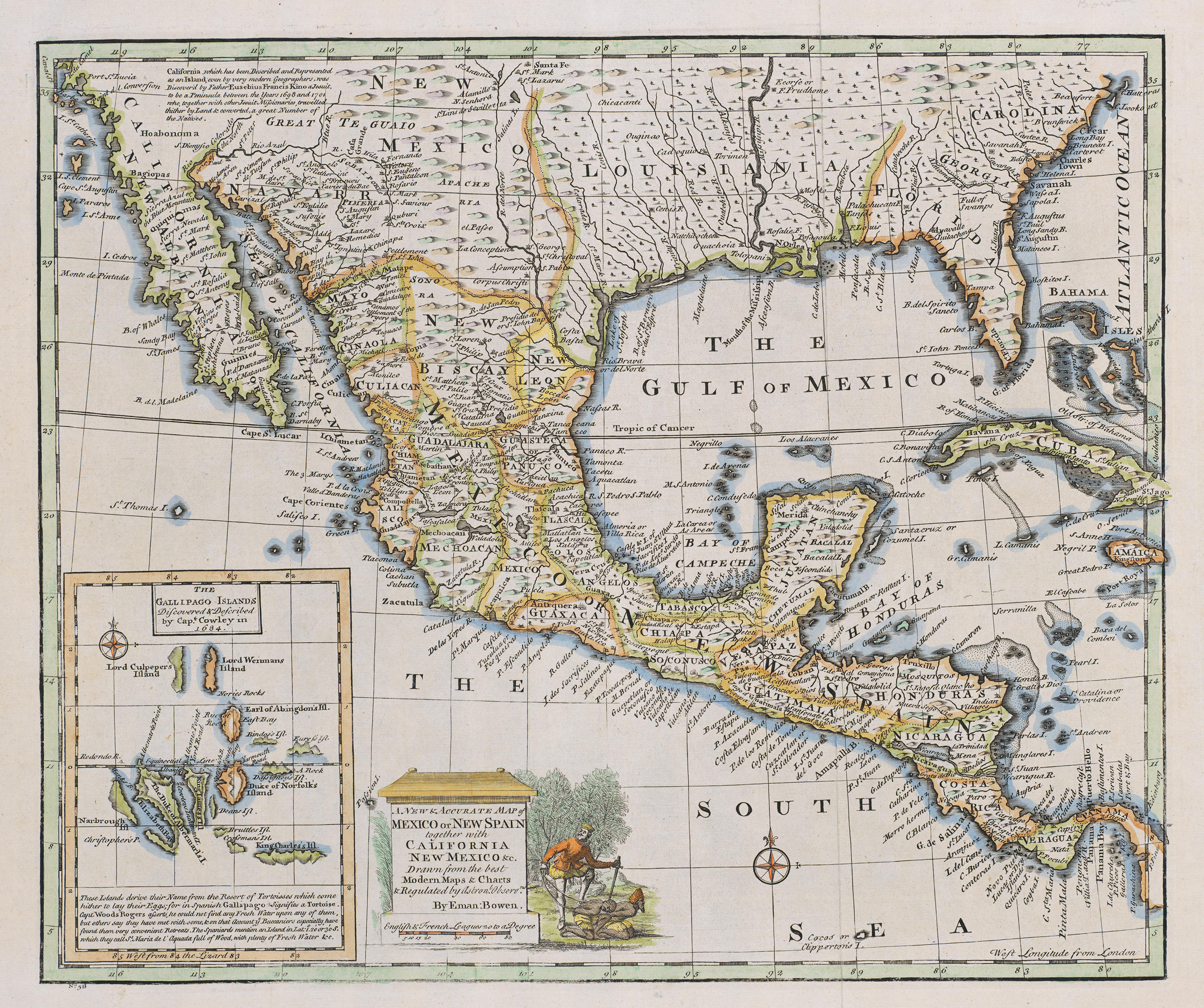 The cartouche of this map of New Spain depicts a European mishandling a couple of Native American captives. The image dates at least back to 1729 when Peter Van der Aa included an identical image on his cartouche of a map of Mexico or New Spain appearing in Abraham du Bois' La Geographie Moderne, published in Leiden at that date. Such images, repeated over and over, contributed to the Spanish "Black Legend" – the idea that the Spanish treated Indians worse than their Anglo-Protestant peers, many of whom behaved equally bad in reality. Bowen's inset depicts the Galápagos Islands based upon descriptions and charts by English sea captains William A. Cowley and Woodes Rogers. Despite the "modern" scientific jargon with reference to "astronomical observations", English engraver, cartographer, publisher and print-seller Emanuel Bowen, even as Geographer to His Majesty, did not have access to accurate field information for much of the territories depicted – no one would until the mid-nineteenth century. His map shows Santa Fe along the 101st meridian instead of its actual location along the 105th, with the result that New Mexico lies four degrees of longitude east of its true location, and the area of present west Texas is considerably condensed.